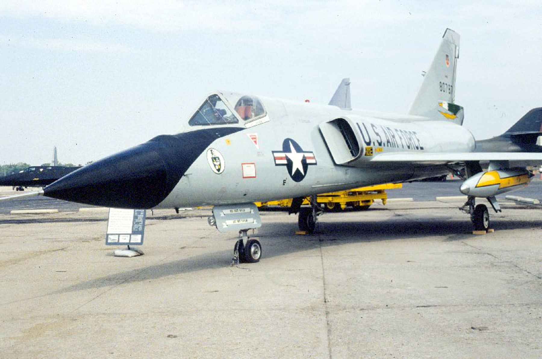 A Convair F-106A Delta Dart (s/n 58-0787) at the National Museum of the United States Air Force.